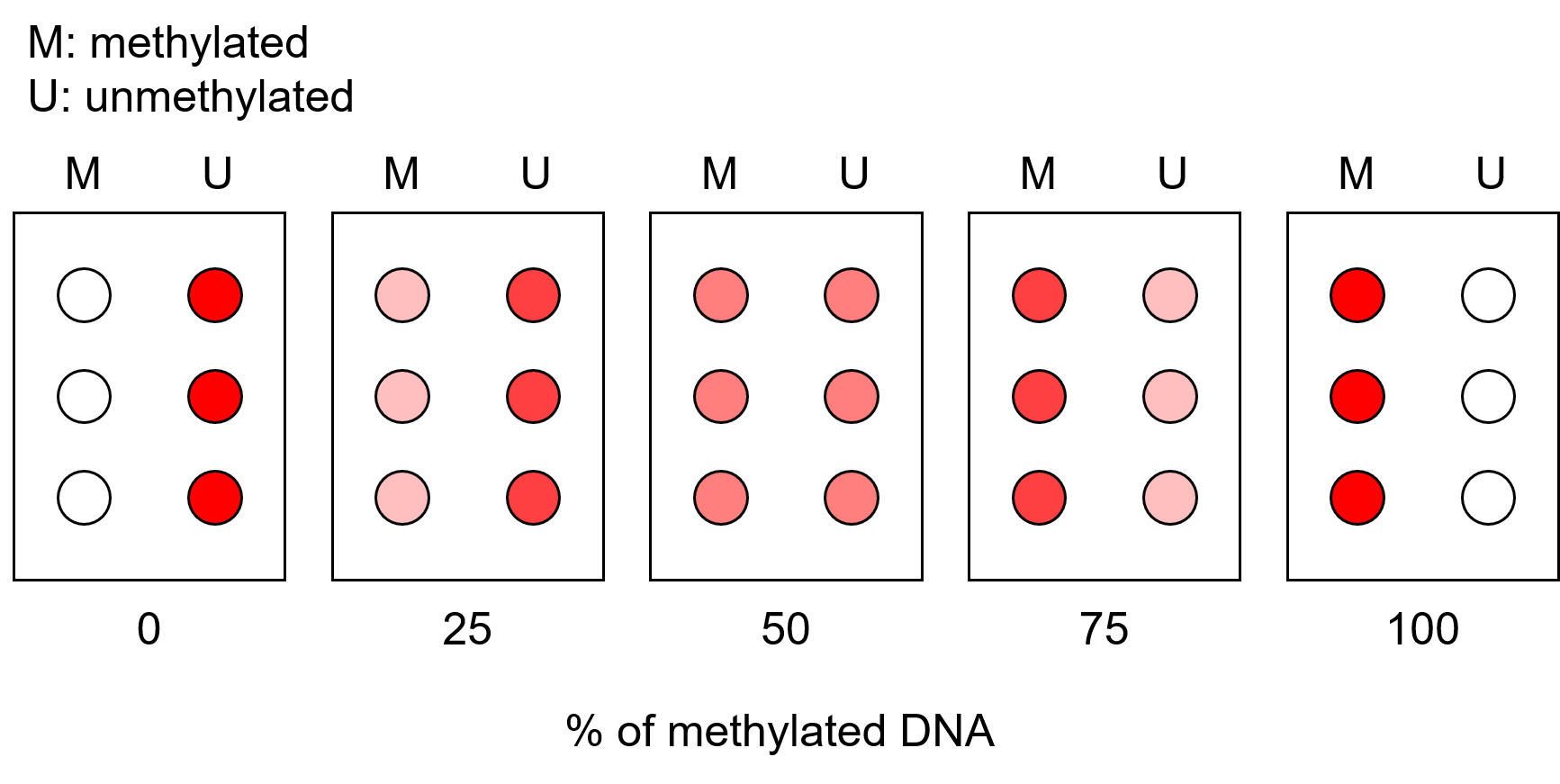 diagram of MSO microarray that would be used to make a calibration curve